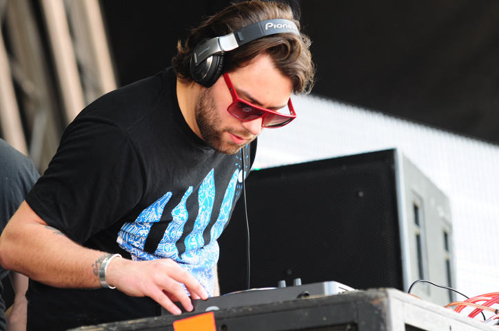 Sebastian Ingrosso @ Wellington Square (1/3/2009)